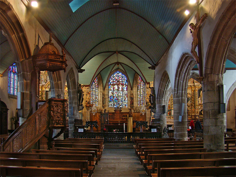 Parish close, Guimiliau, Finistère, Bretagne, France. Nave and choir.